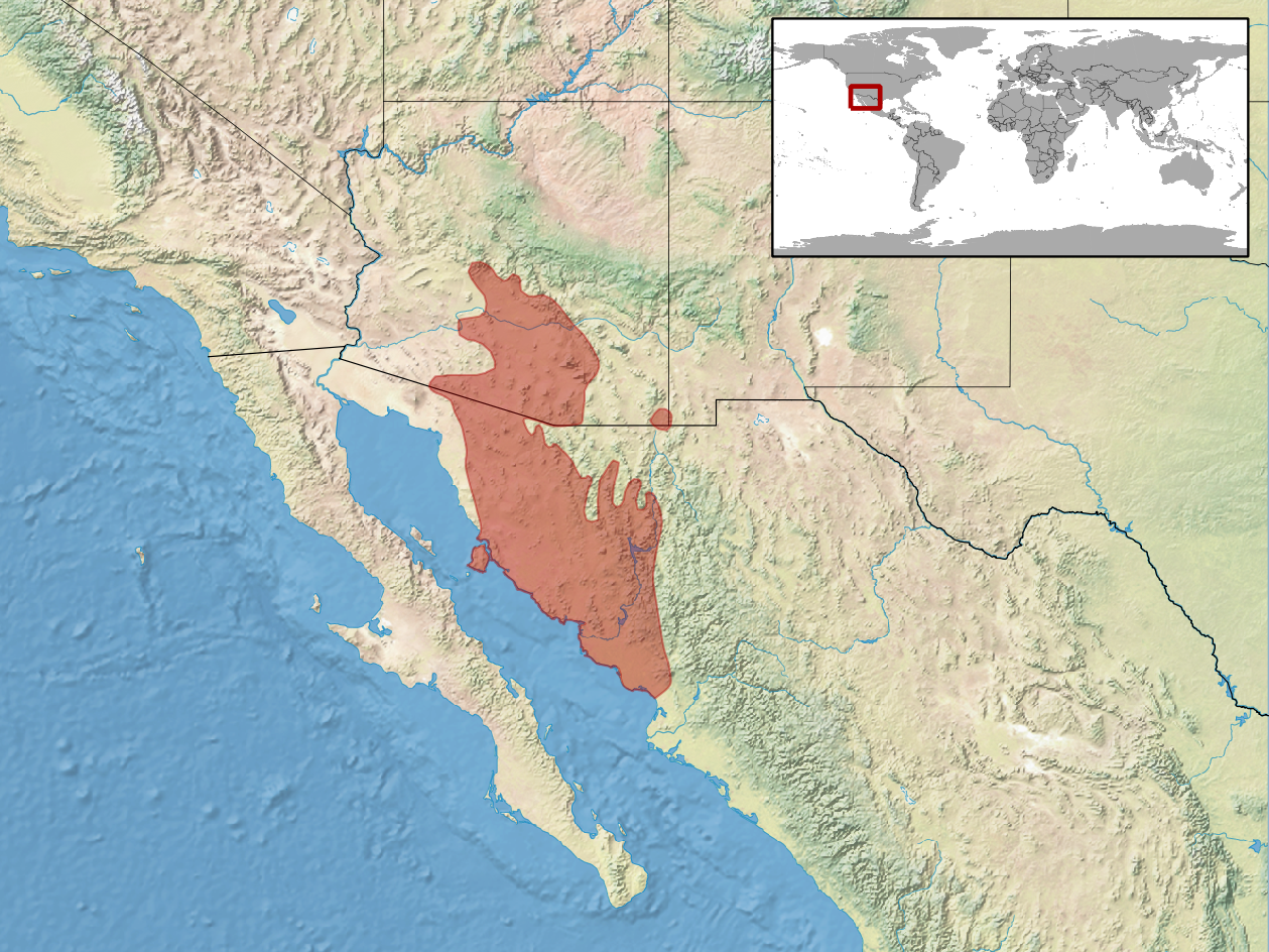 geographic distribution of Crotalus tigris (Native: Mexico; United States)